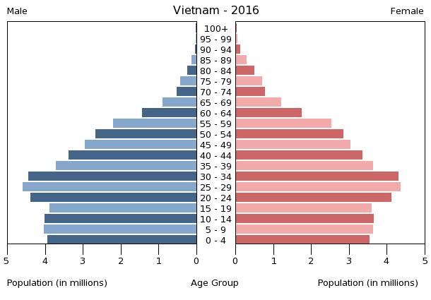 The population pyramid of Vietnam illustrates the age and sex structure of population and may provide insights about political and social stability, as well as economic development. The population is distributed along the horizontal axis, with males shown on the left and females on the right. The male and female populations are broken down into 5-year age groups represented as horizontal bars along the vertical axis, with the youngest age groups at the bottom and the oldest at the top. The shape of the population pyramid gradually evolves over time based on fertility, mortality, and international migration trends.